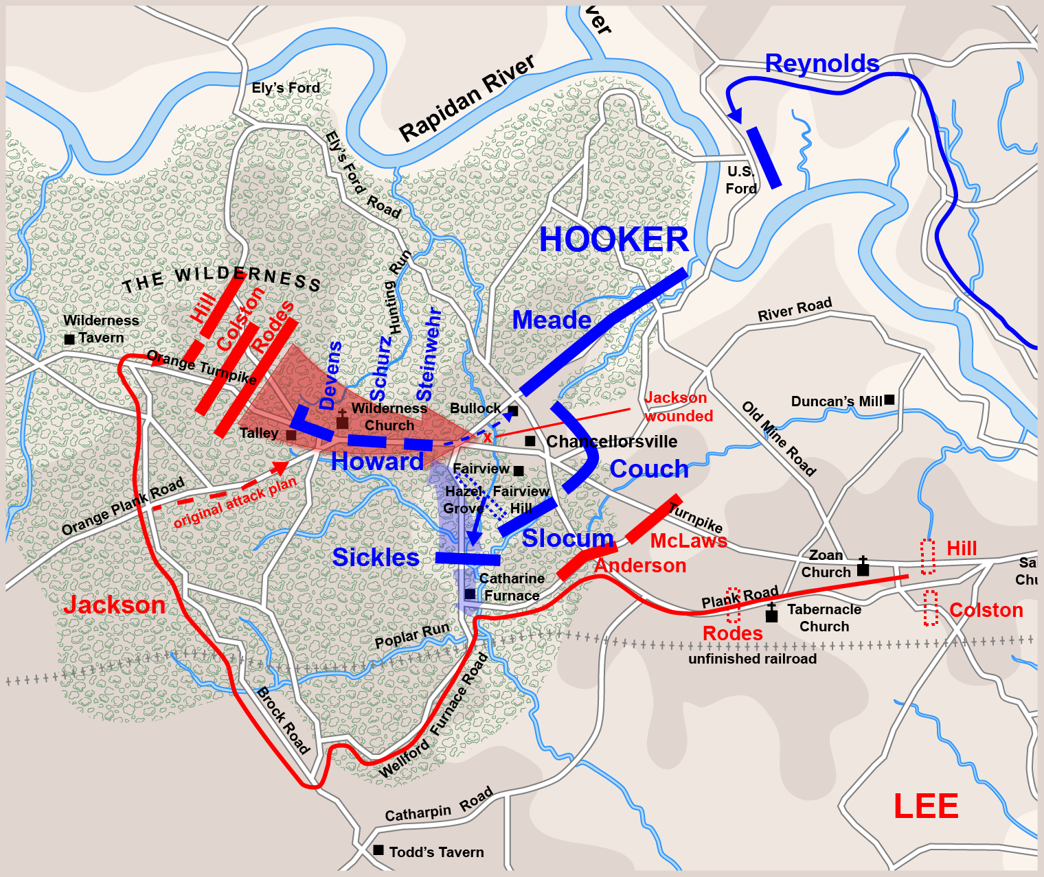 Map of a portion (May 2) of the battle of Chancellorsville of the American Civil War. This map is modification of the map entitled Chancellorsville May2.png.